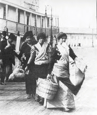 Old image of early Irish immigrants from